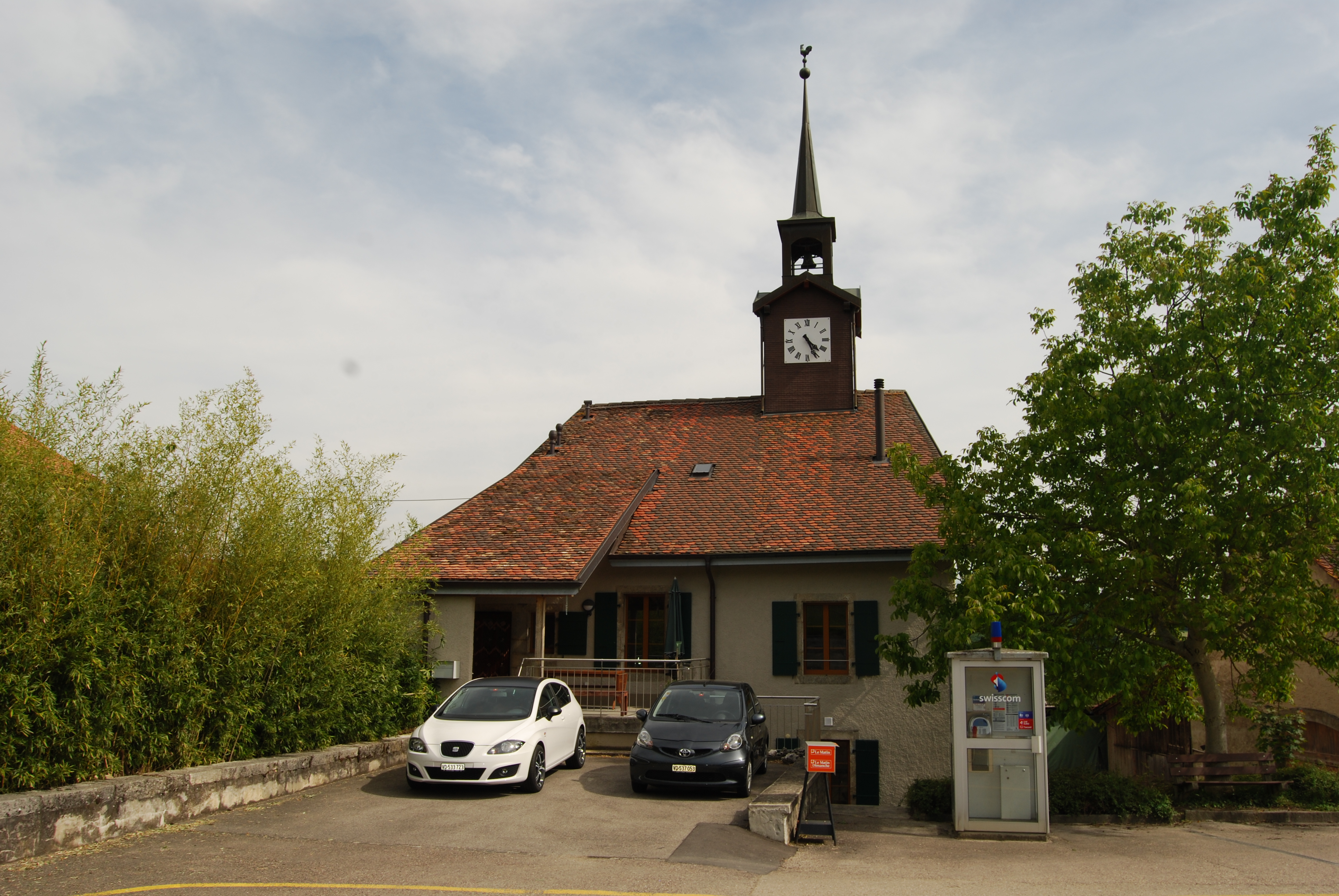 Essert-sous-Champvent, municipality Champvent, canton of Vaud, Switzerland